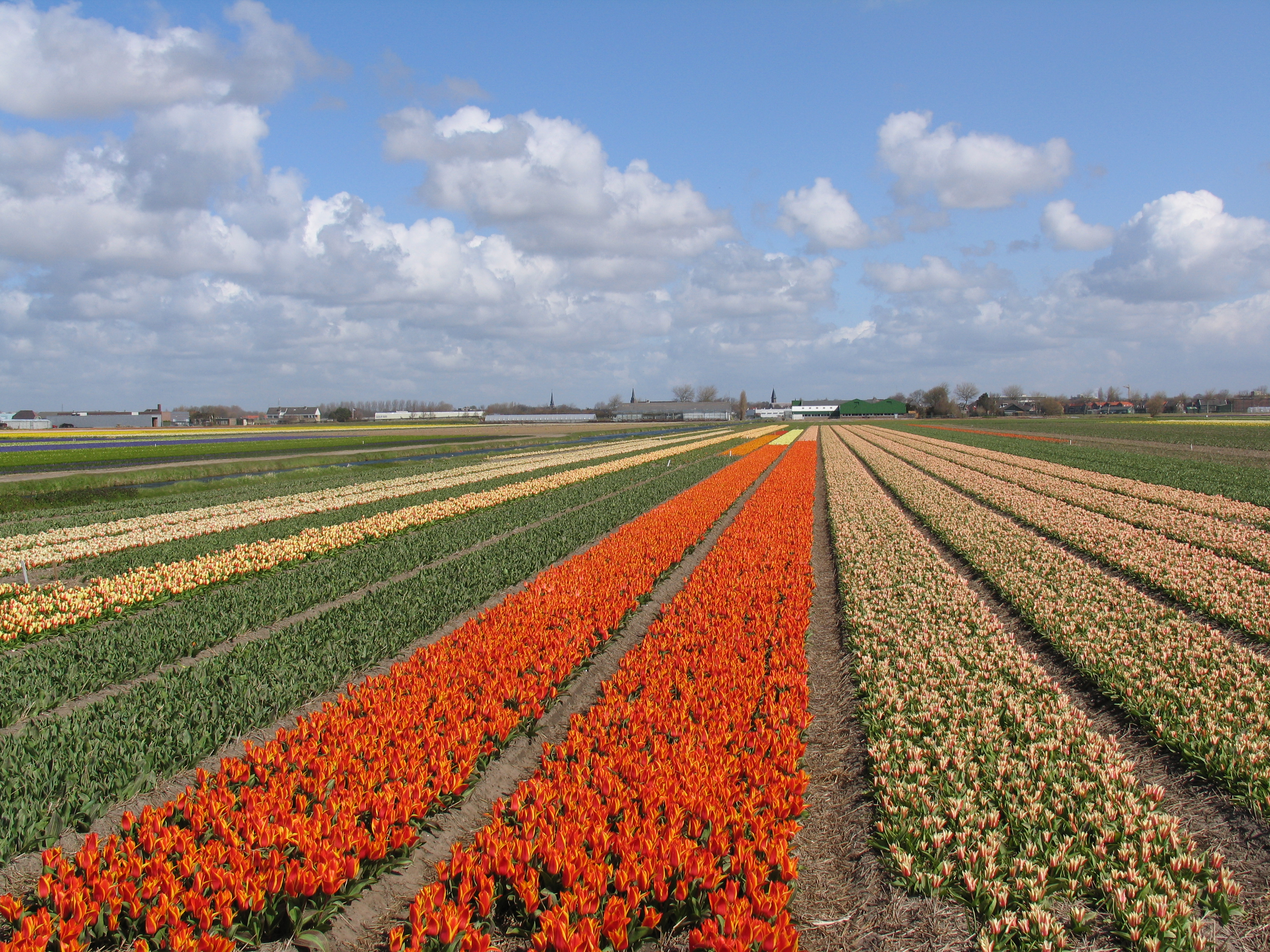 Field with different sorts of cultivated tulips near Keukenhof, Netherlands